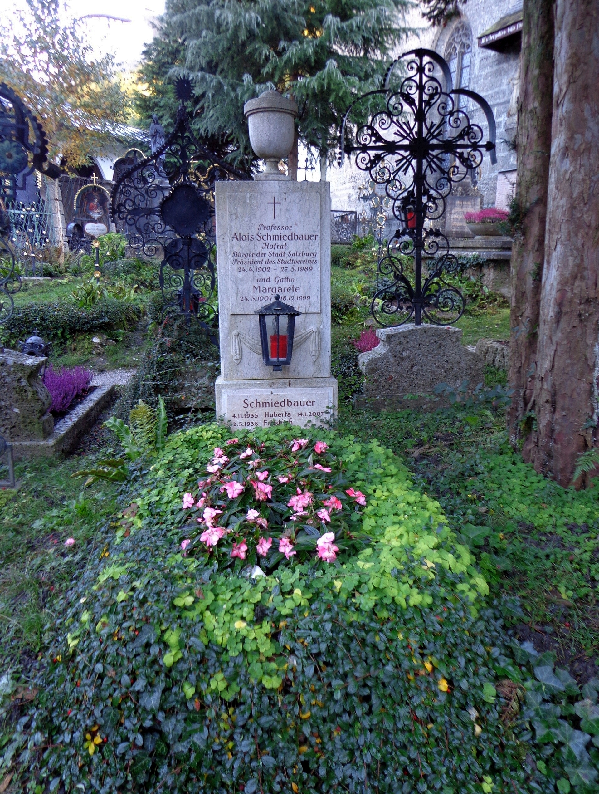 Petersfriedhof Salzburg: grave of the Schmiedbauer family